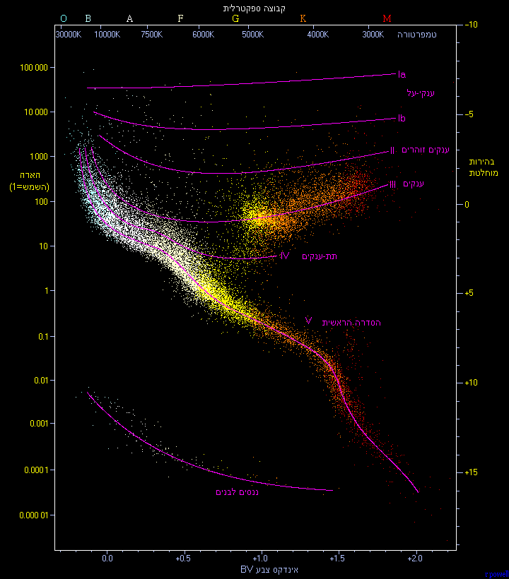 Hertzsprung-Russell diagram. A plot of luminosity (absolute magnitude) against the colour of the stars ranging from the high-temperature blue-white stars on the left side of the diagram to the low temperature red stars on the right side. "This diagram below is a plot of 22000 stars from the Hipparcos Catalogue together with 1000 low-luminosity stars (red and white dwarfs) from the Gliese Catalogue of Nearby Stars. The ordinary hydrogen-burning dwarf stars like the Sun are found in a band running from top-left to bottom-right called the Main Sequence. Giant stars form their own clump on the upper-right side of the diagram. Above them lie the much rarer bright giants and supergiants. At the lower-left is the band of white dwarfs - these are the dead cores of old stars which have no internal energy source and over billions of years slowly cool down towards the bottom-right of the diagram." Converted to png and compressed with pngcrush.